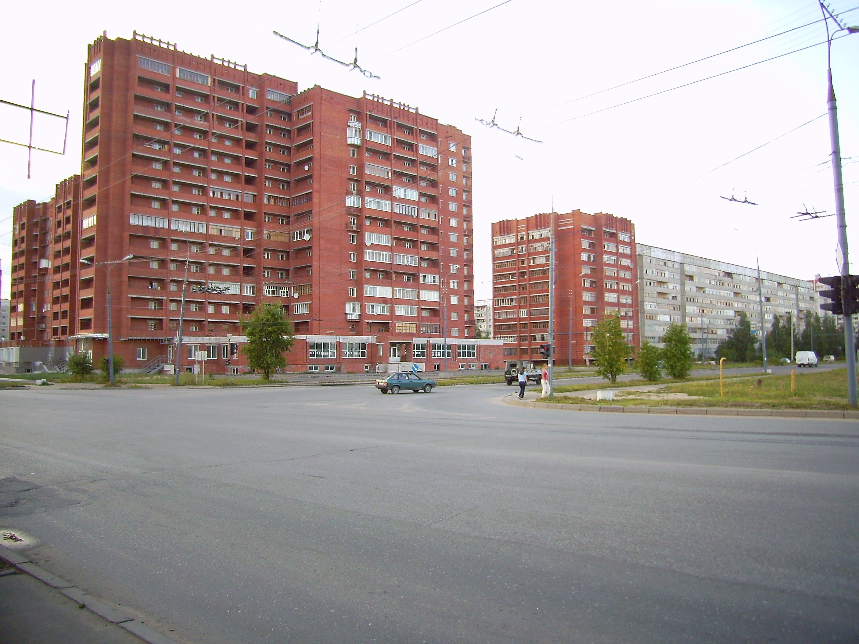 View of the Leninsky Microdistrict, Yoshkar-Ola.